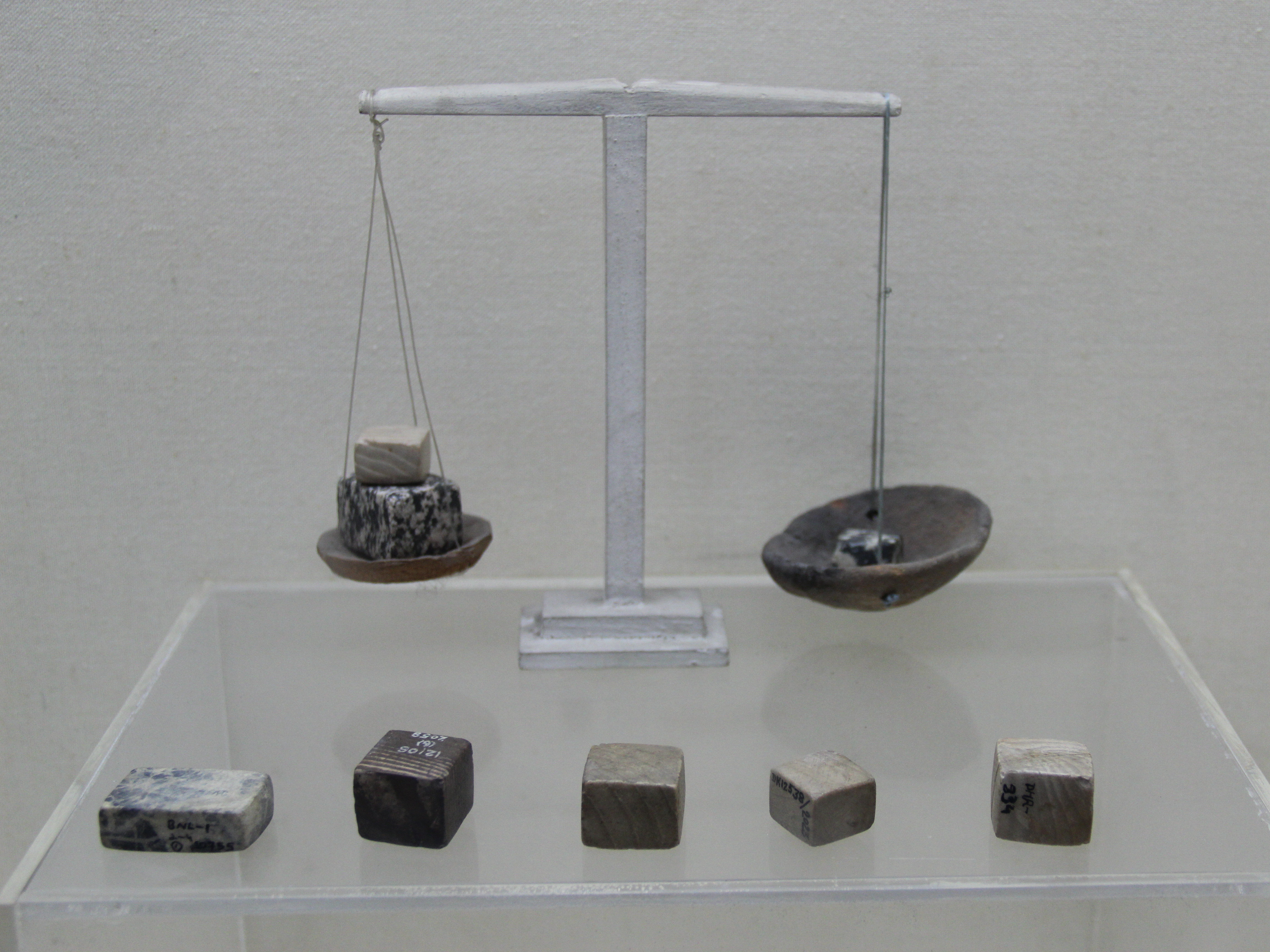 Harappan (Indus Valley) Balance & Weights. Harappan (Indus Valley) Civilization Gallery, India National Museum, New Delhi. Complete indexed photo collection at .